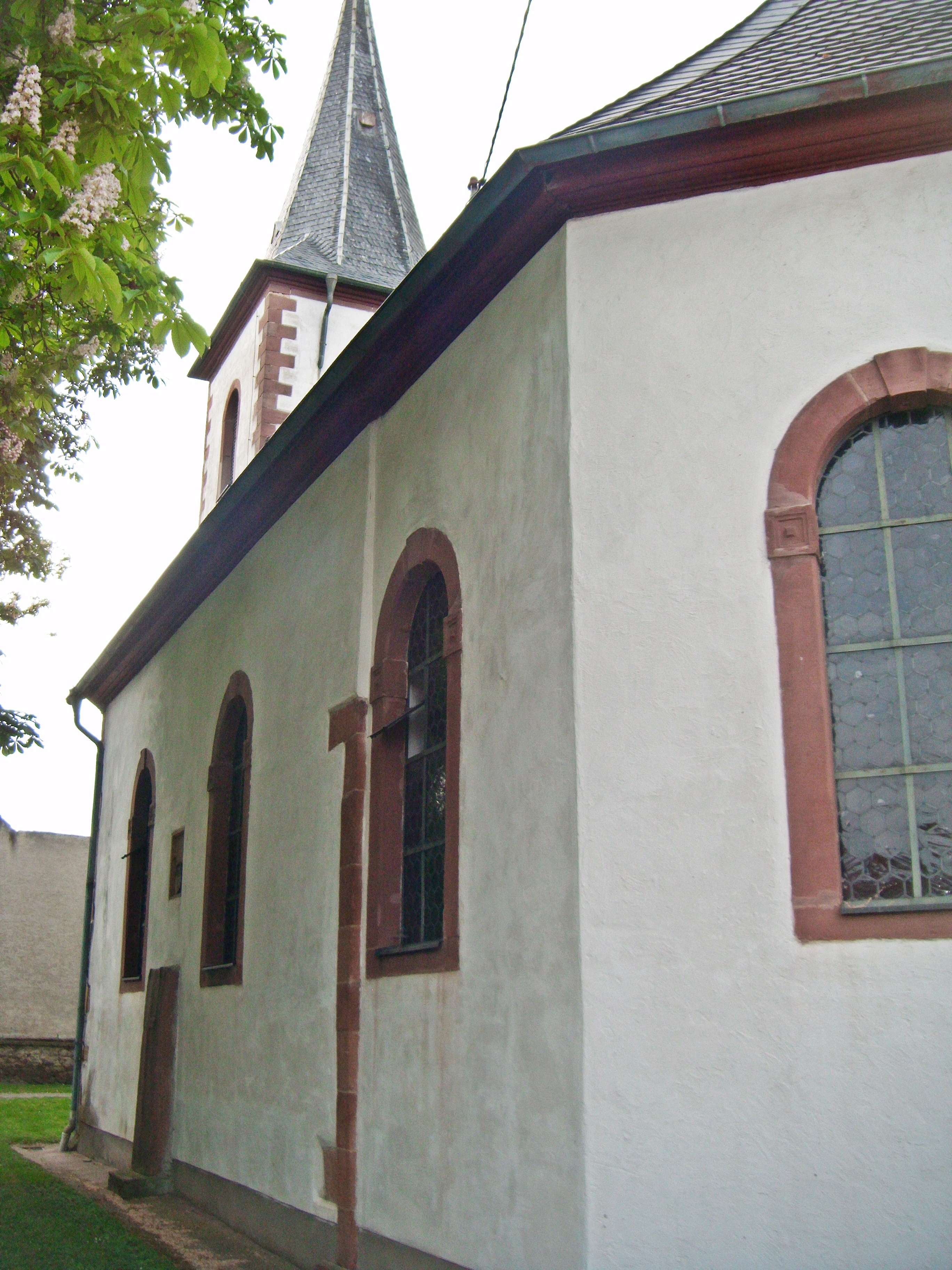 Heuchelheim bei Frankenthal, Prot. Kirche